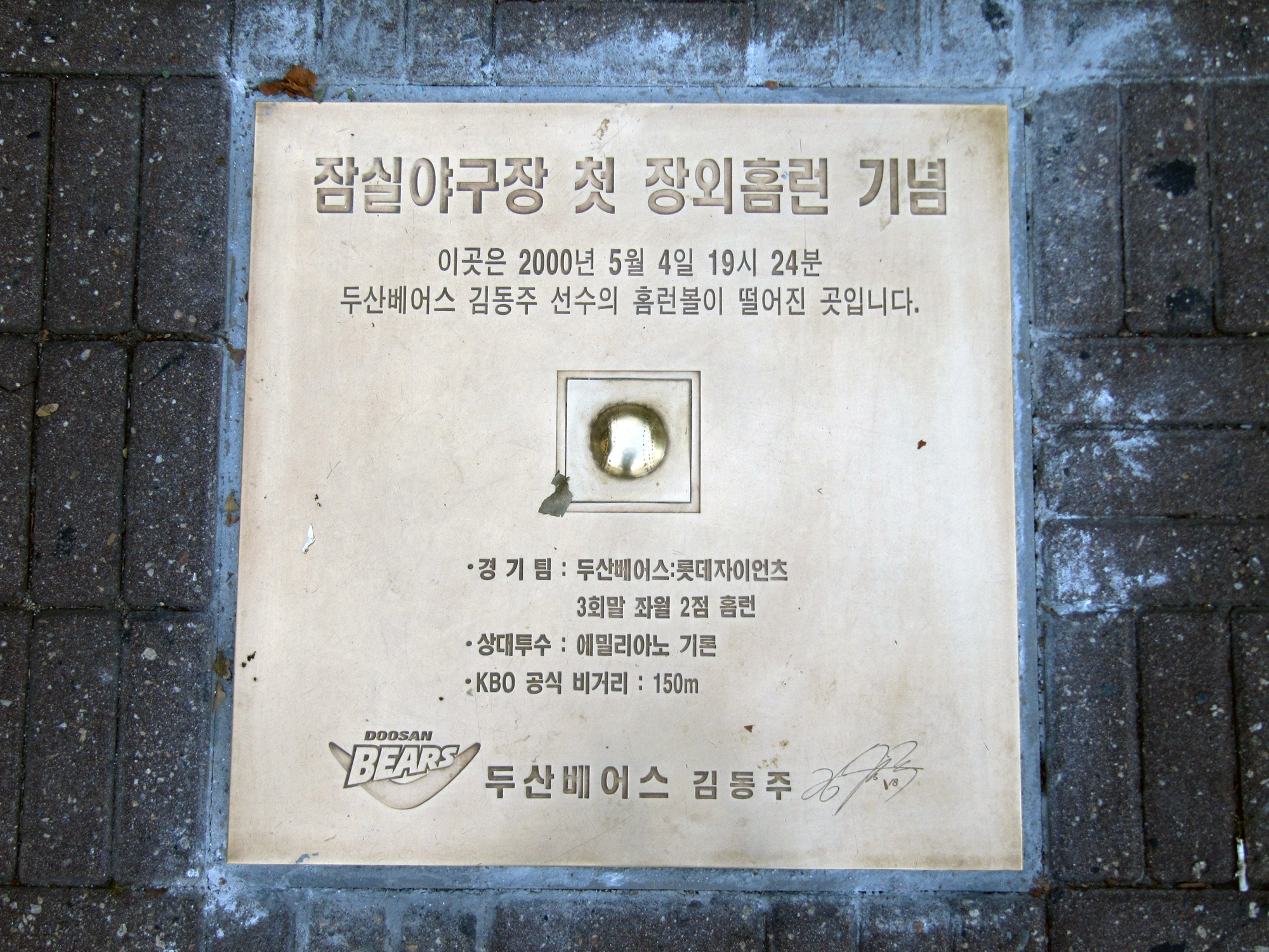 A Memorial plate which memorized the first Outside the Ballpark Homerun made by Kim Dong-Joo